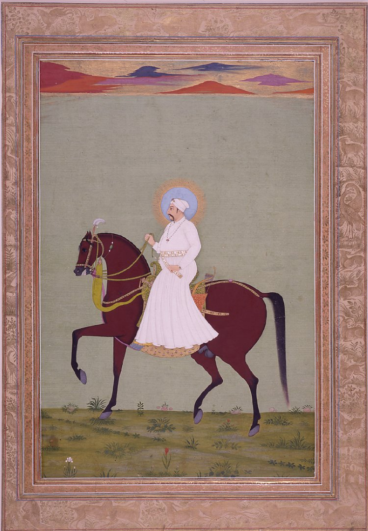 Album leaf. Portrait. Muḥammad Sháh on horseback. On paper.